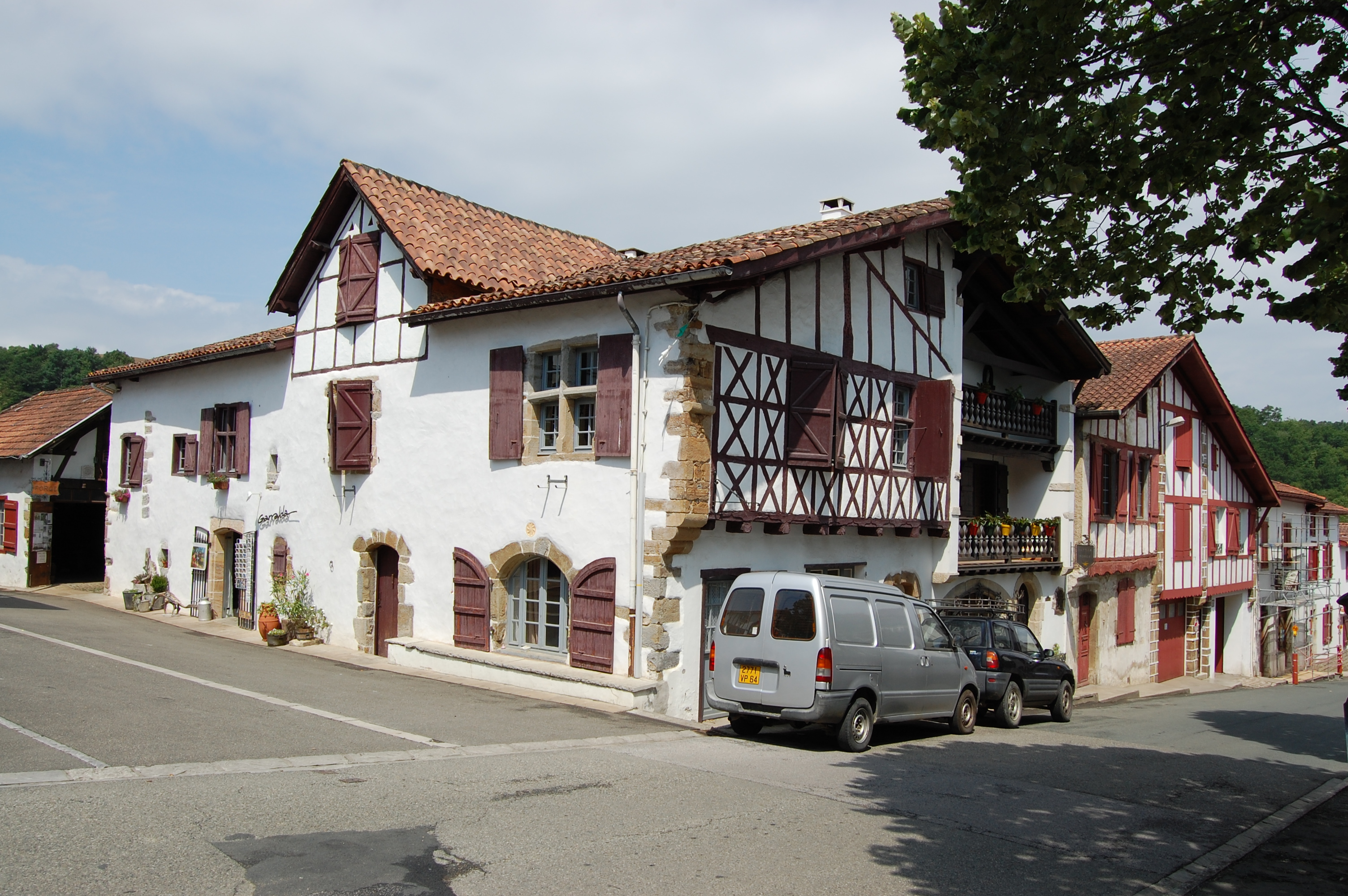 Garralda